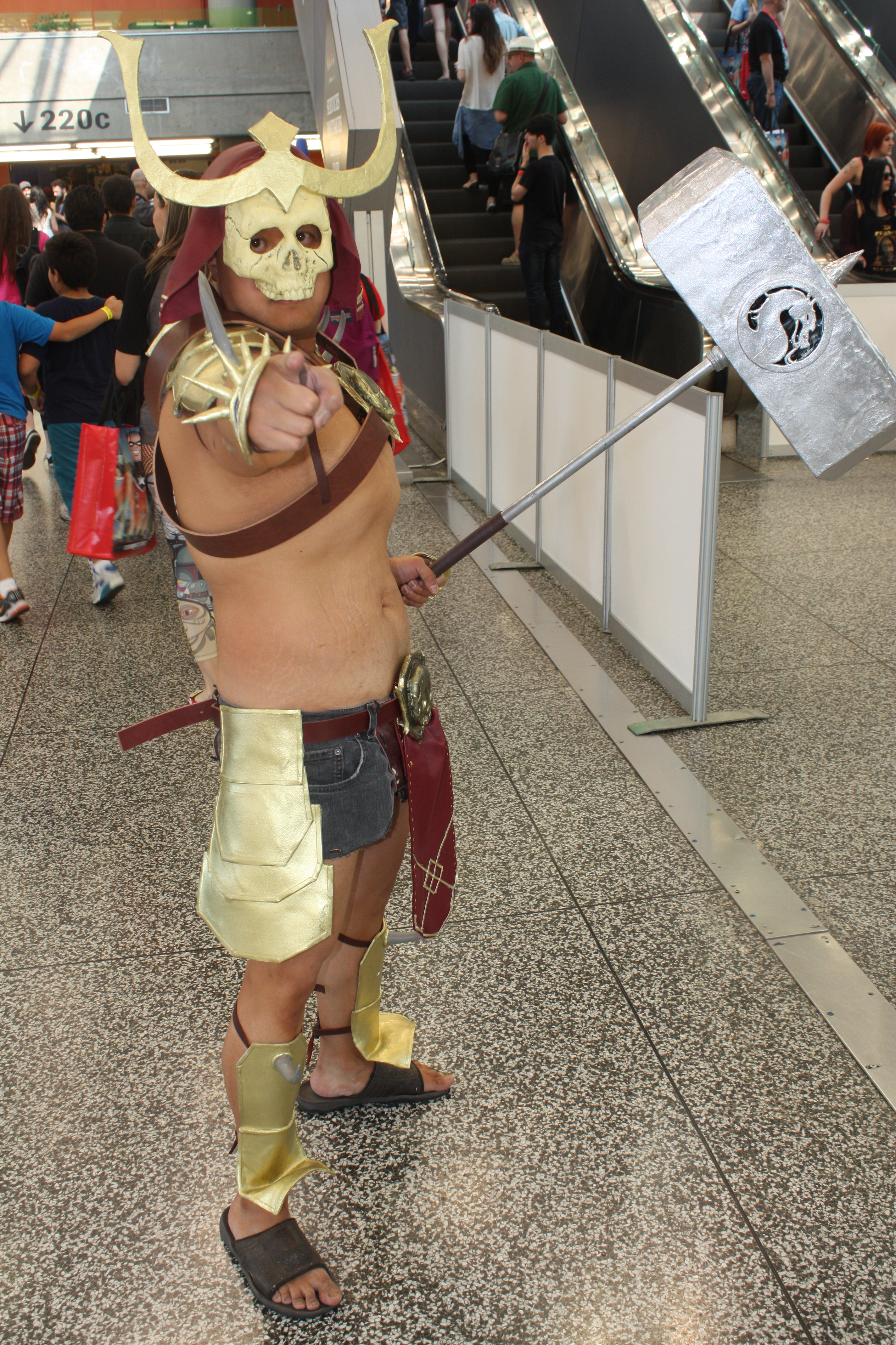 Cosplay one day one of Montreal Comiccon 2015.